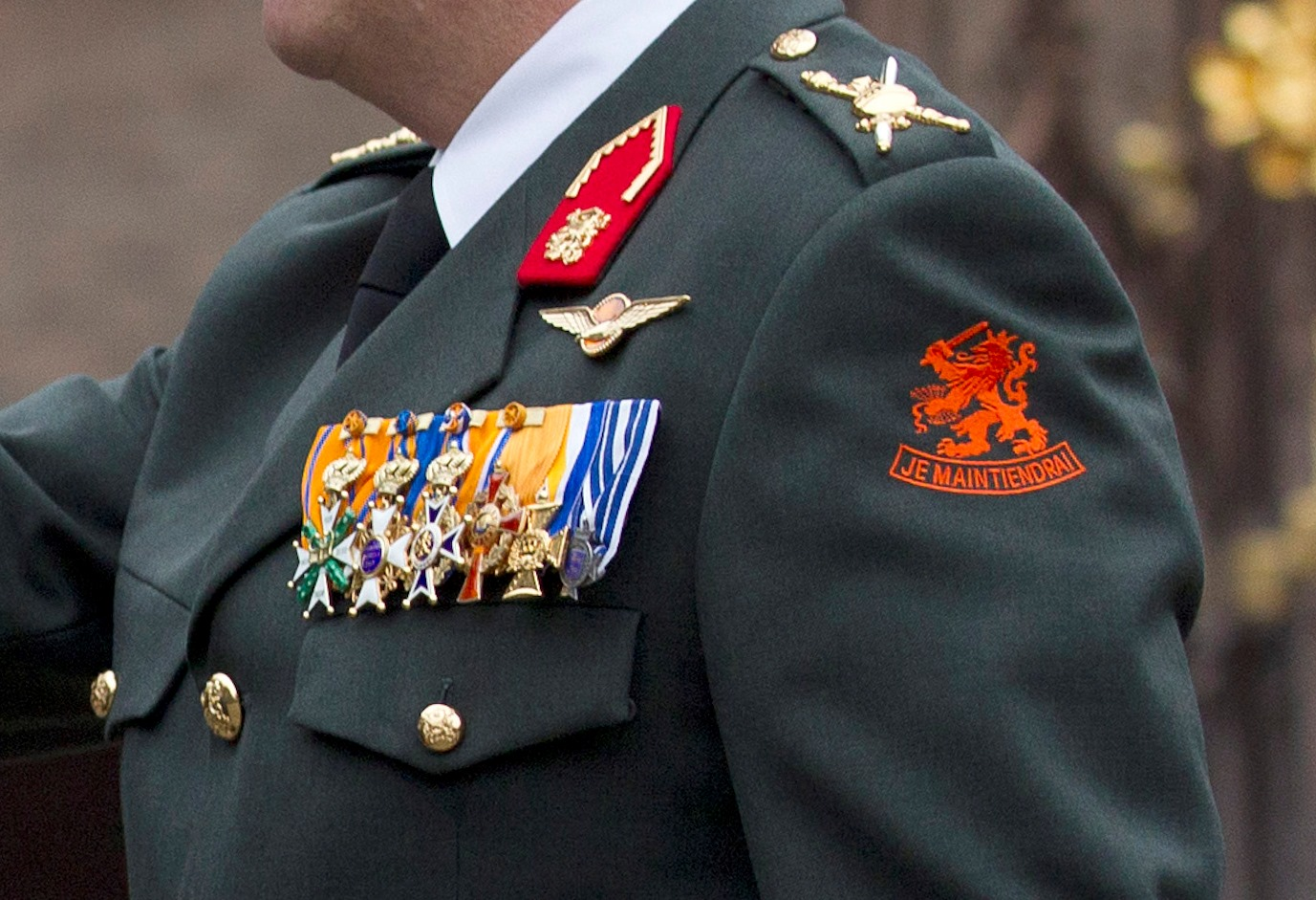 DEN HAAG - RIDDER MILITAIRE WILLEMSORDE - GIJS TUINMAN